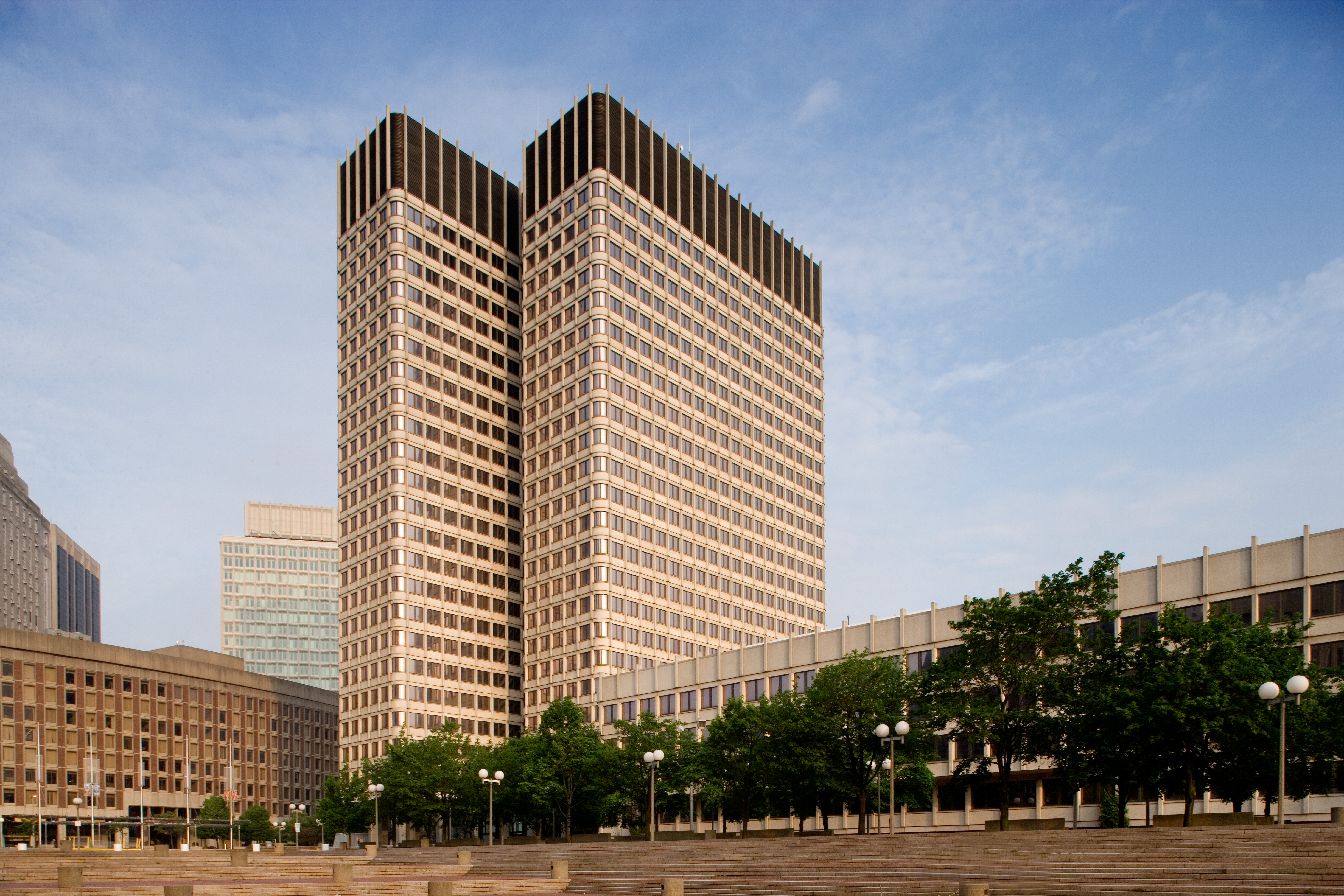 John F. Kennedy Federal Building in Boston, Massachusetts. Creator(s): Highsmith, Carol M., 1946-, photographer. Date Created/Published: 2006 May 28. Repository: Library of Congress Prints and Photographs Division Washington, D.C. 20540 USA